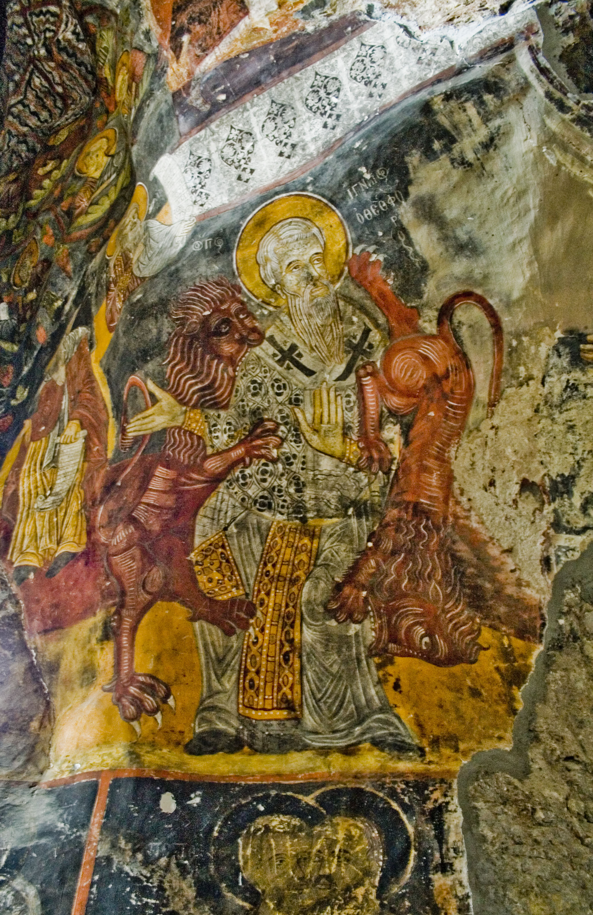 A fresco in the Sumela monastery in Trabzon province, Turkey